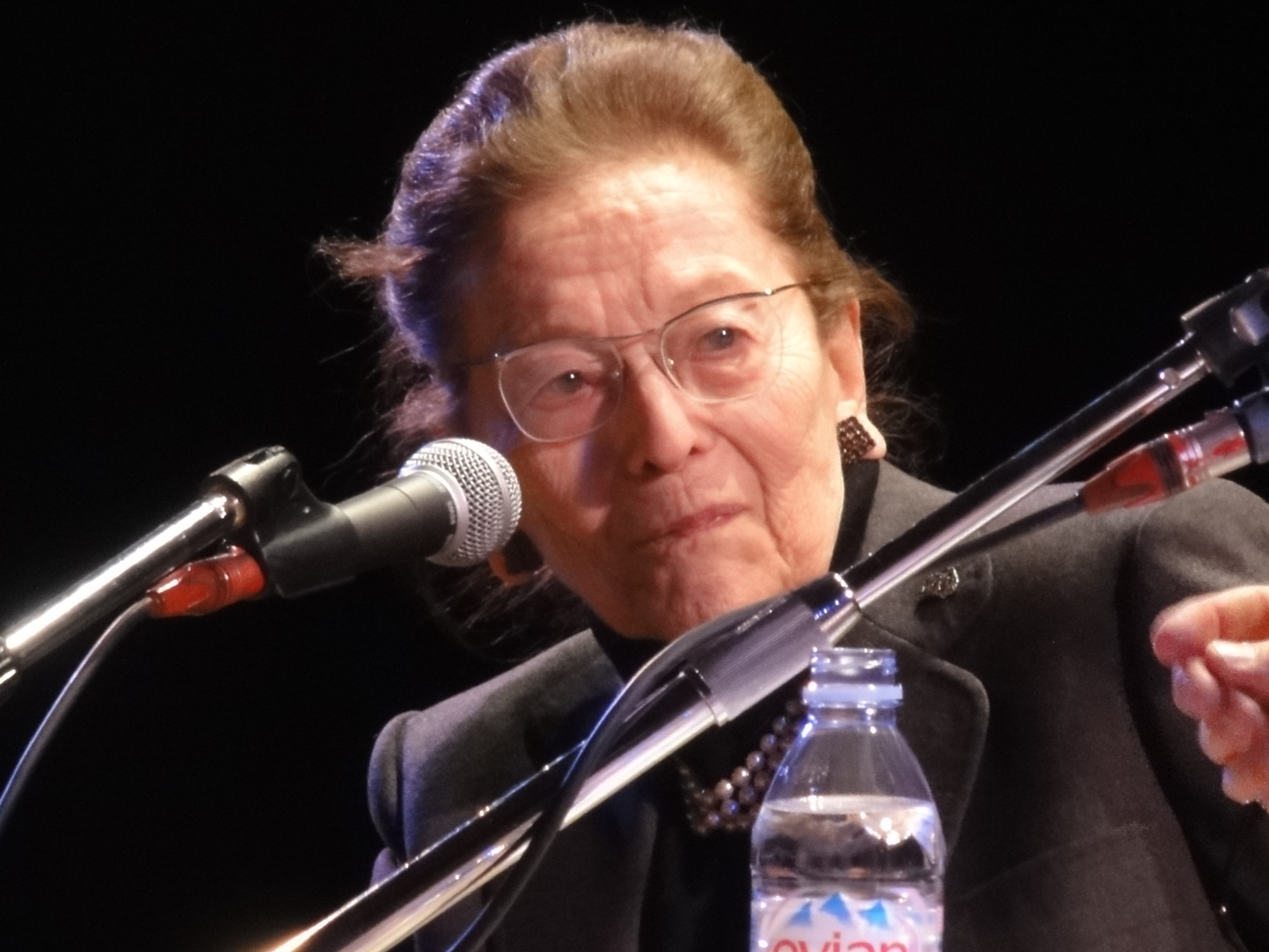 Edmonde Charles-Roux, president of the Goncourt Academy, attending 'Les Écritures Croisées' in Aix-en-Provence and answered questions from Antoine Boussin (Grasset). Interview with Antoine Boussin, Didier Decoin, Michel Guerrin (Le Monde), and Annie Terrier.